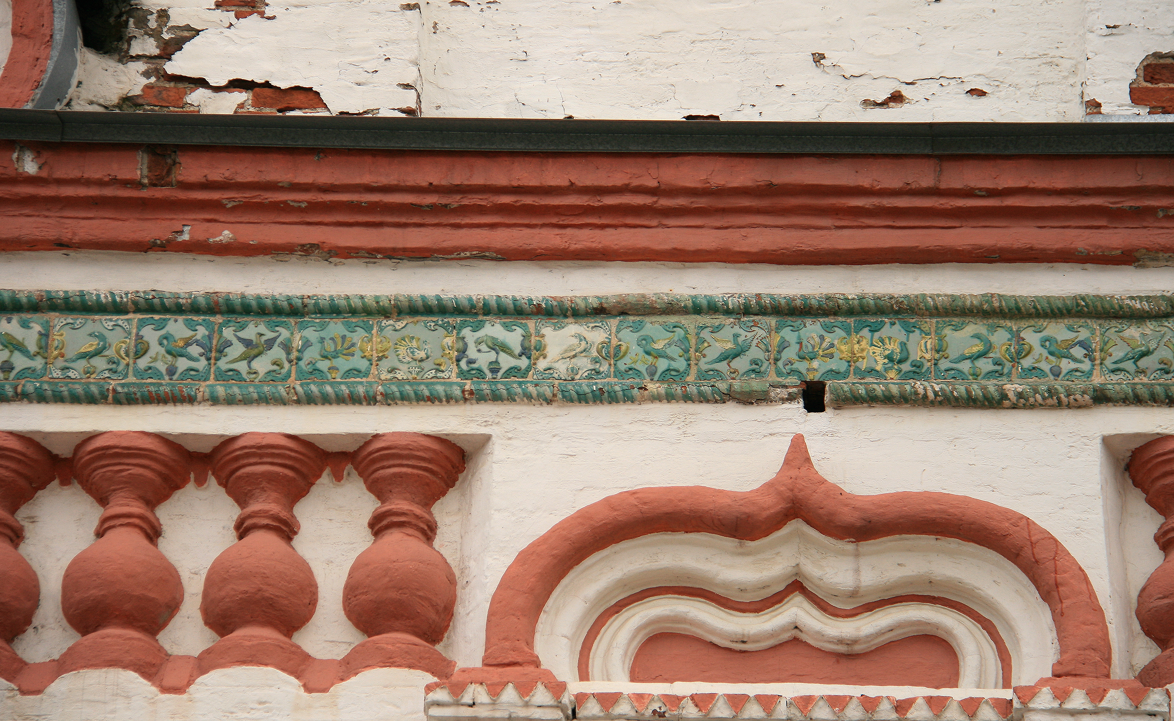 Tiles decoration of the Church of the Epiphany, Solikamsk, Perm Krai